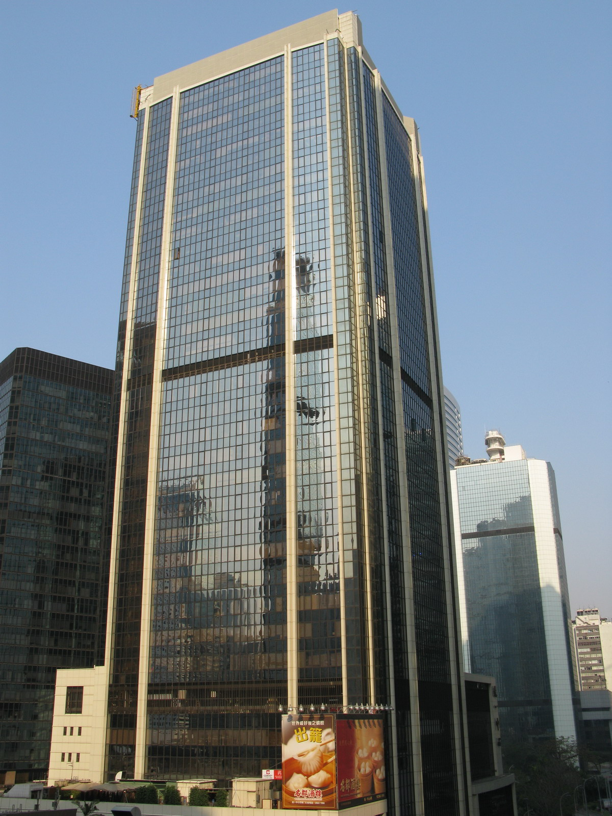 United Centre